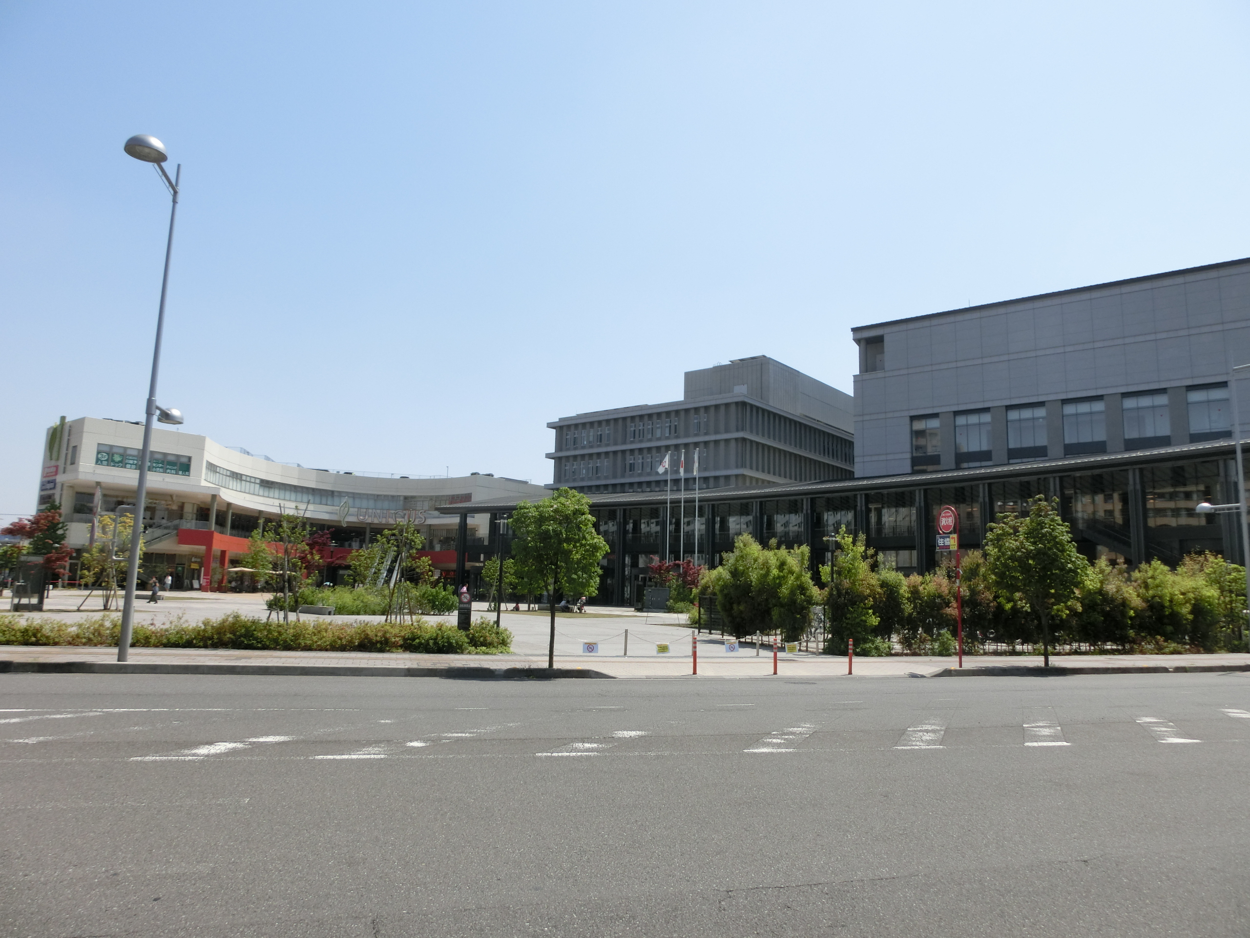 Westa Kawagoe and Unicus Kawagoe